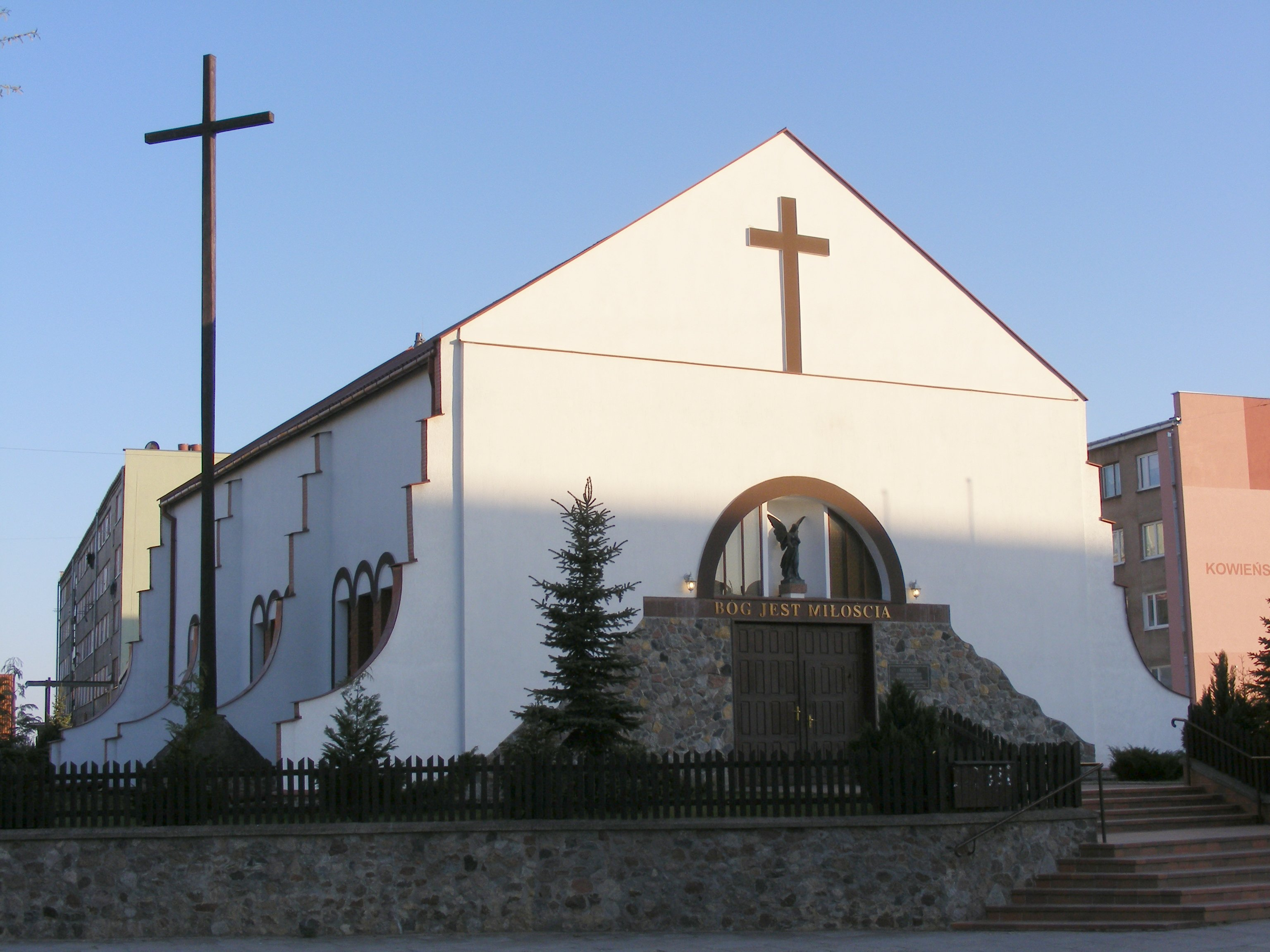 Church of saint Albert Chmielowski in Suwalki, taken on Friday, May 1st 2009.